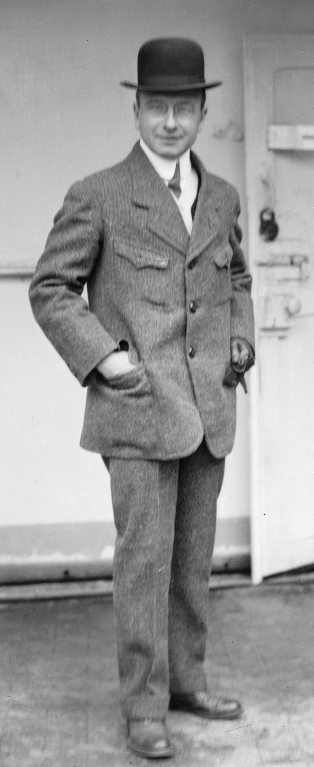 Dr. A. Carrel (LOC) Bain News Service, publisher. Dr. Alexis Carrel in 1912 [between 1910 and 1915] 1 negative : glass ; 5 x 7 in. or smaller. Notes: Title from unverified data provided by the Bain News Service on the negatives or caption cards. Forms part of: George Grantham Bain Collection (Library of Congress). Format: Glass negatives. Repository: Library of Congress, Prints and Photographs Division, Washington, D.C. 20540 USA, General information about the Bain Collection is available at Persistent URL: Call Number: LC-B2- 2452-7